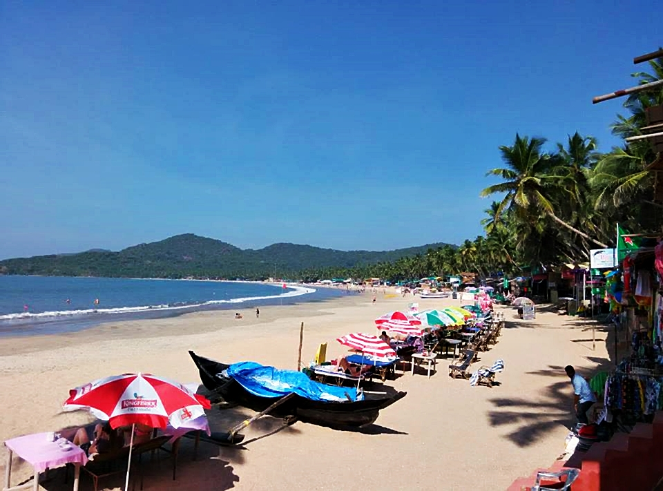 A Serene View Of Palolem Beach, South Goa